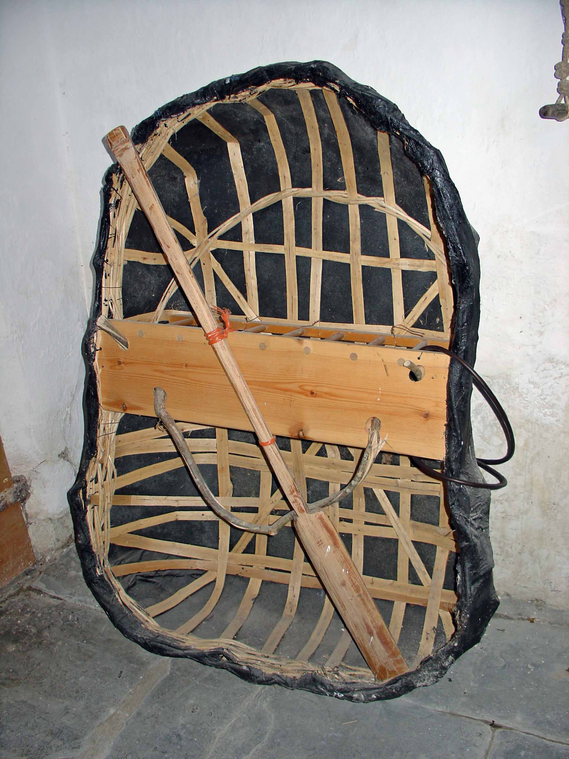 Coracle of typical River Teifi design, with narrowed "waist". In the Old Parish Church, Manordeifi, Pembrokeshire, Wales.